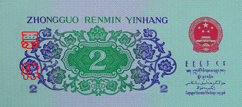 Third series of the renminbi 2jiao(sample)